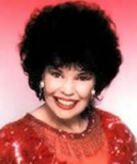 Virginia Henley "The Lady in Red"